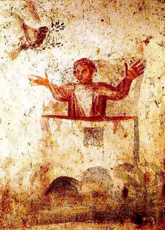 The ark of Noah and the cosmic covenant / L'arche de Noé et l'alliance cosmique / 04 CATACOMBES NOE ET LA COLOMBE SAINTS PIERRE